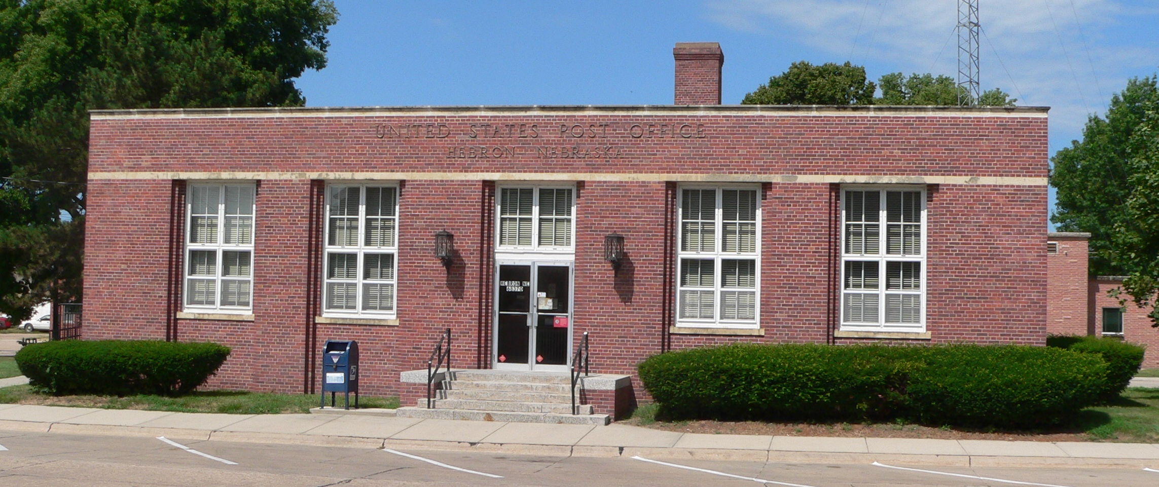 U.S. Post Office in Hebron, Nebraska; seen from the east. The Moderne building was constructed in 1937. It is listed in the National Register of Historic Places.